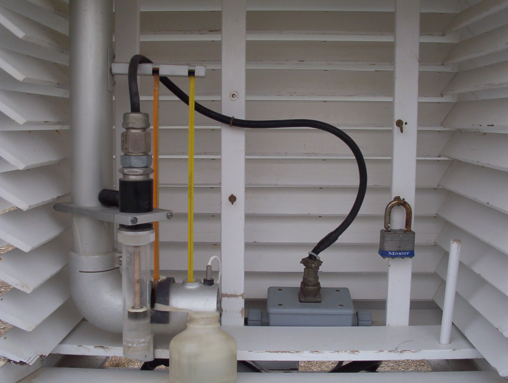 Interior of a Stevenson screen showing (from left to right) the dewcell, wet bulb with wick attached to water supply, dry bulb and dry thermistor. The metal pipe is called a psychrometer and sucks air across the thermometers.